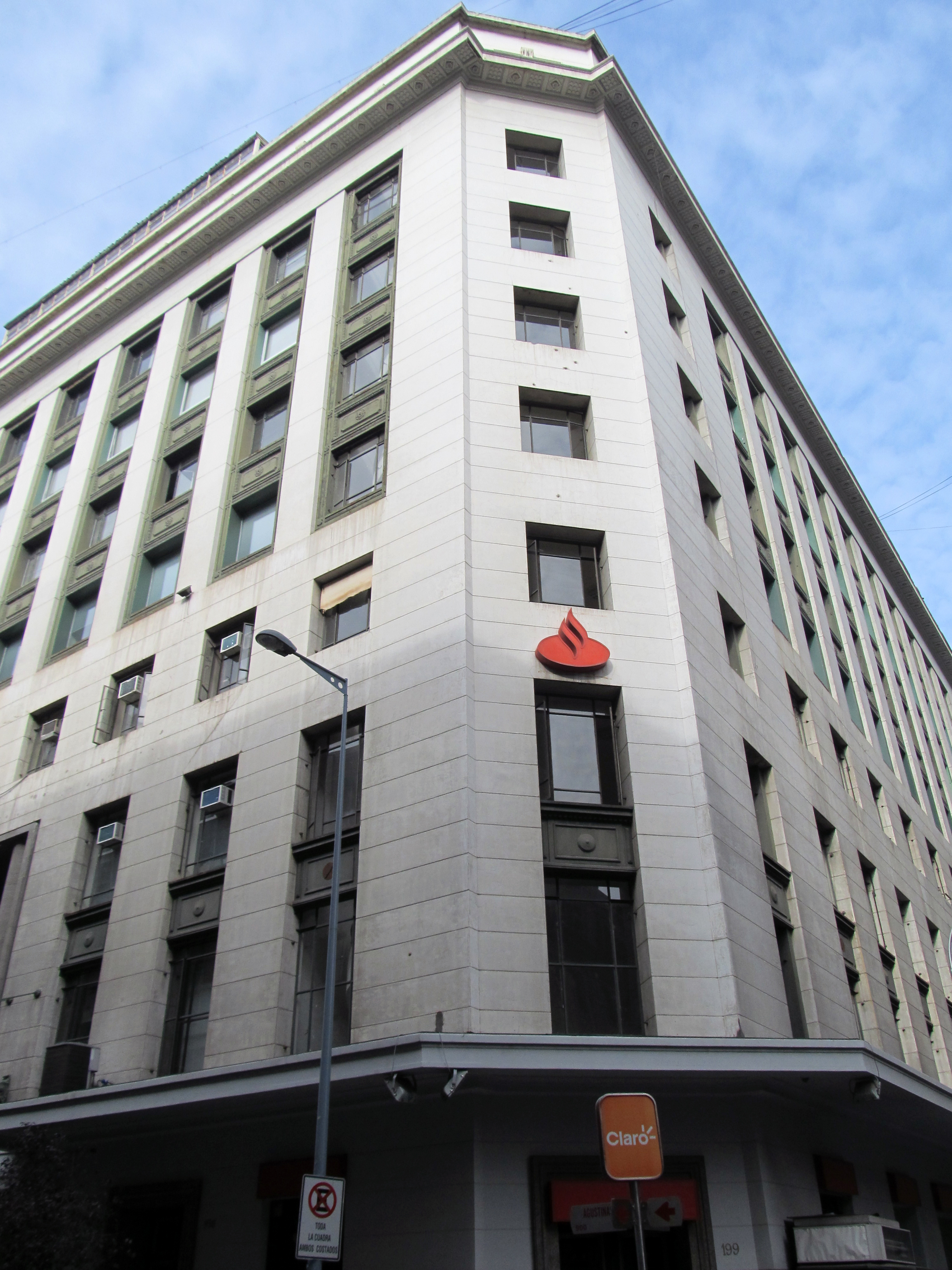 Edificio del ex Banco Español, actual Banco Santander, Santiago, Chile.